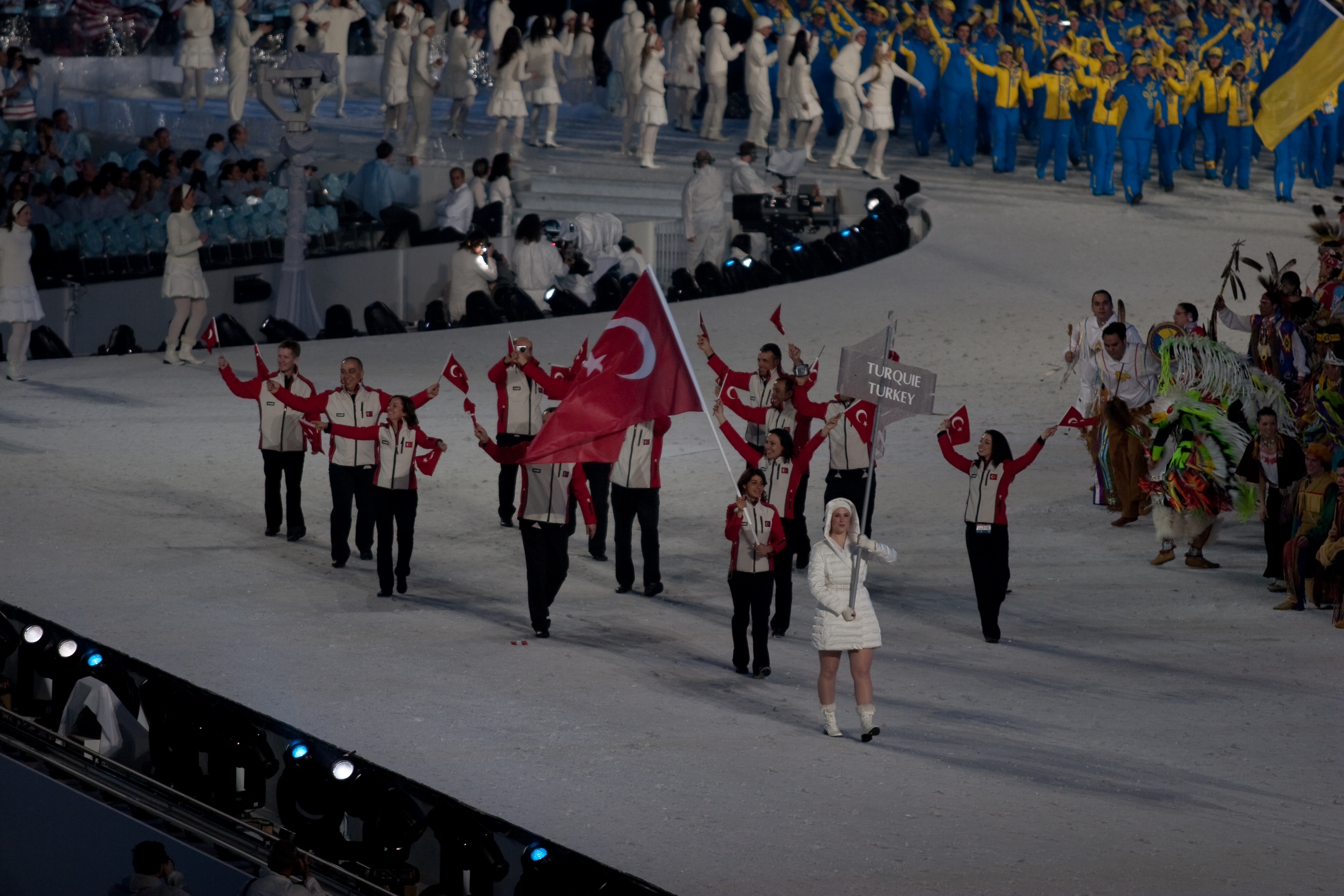 The athletes from Turkey entering the stadium at the opening ceremonies of the 2010 Winter Olympics, with Kelime Aydın carrying the national flag.